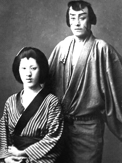 Eizaburō Onoe V (left, 1870–1934) as Yokogushi no Otomi and Kikugorō Onoe VI (1885–1949) as Kirare Yosaburō in the September 1892 Tokyo Kabuki-za production of Yowa Nasake Ukiyo no Yokogushi (Kirare Yosaburō)